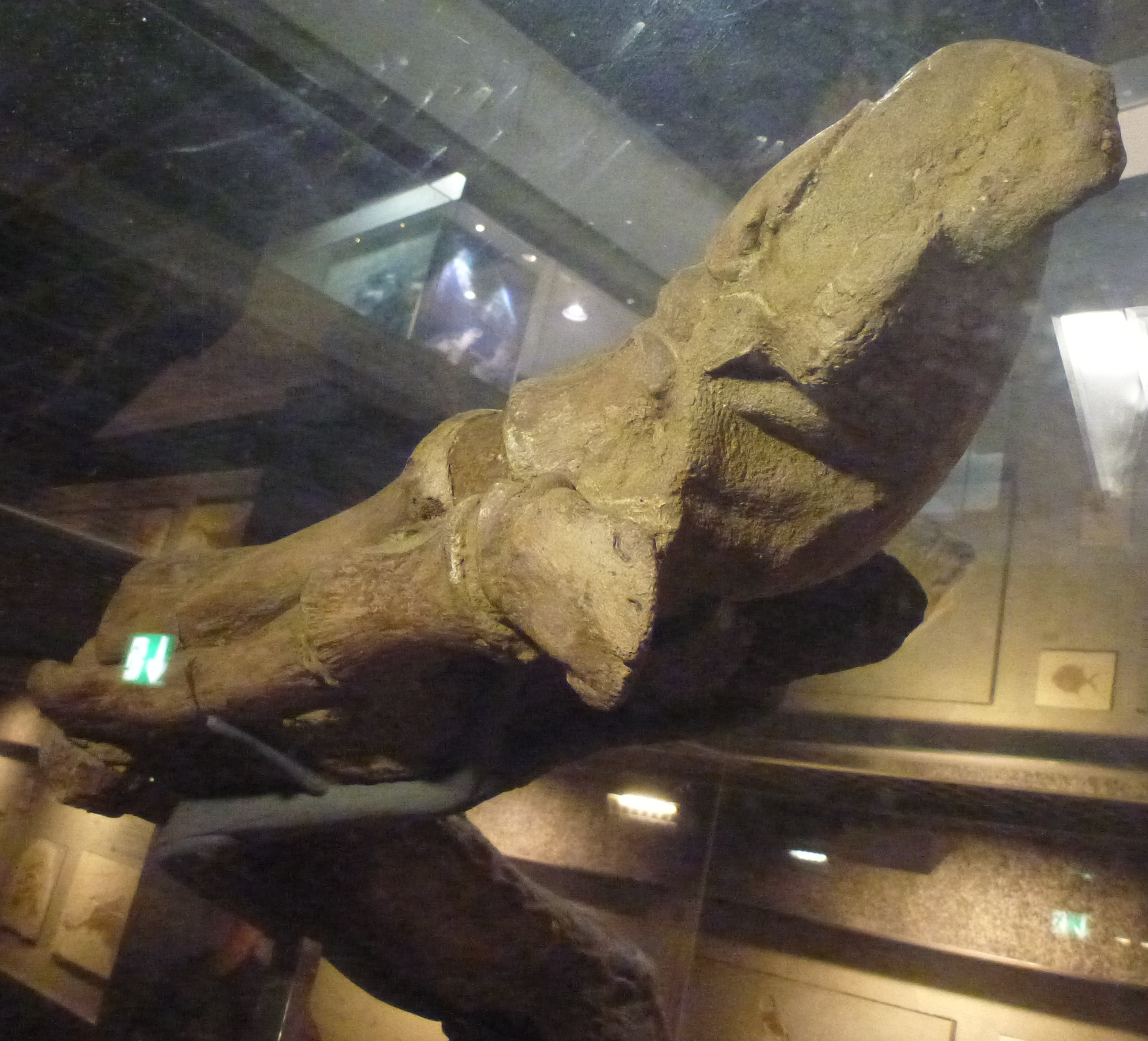 The Edmontosaurus mummy SMF R 4036 on display at the Senckenberg Museum, Frankfurt, Germany.